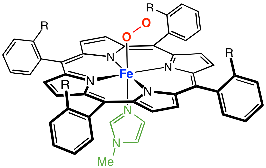 Picket fence motif with colorized imidazole ligand